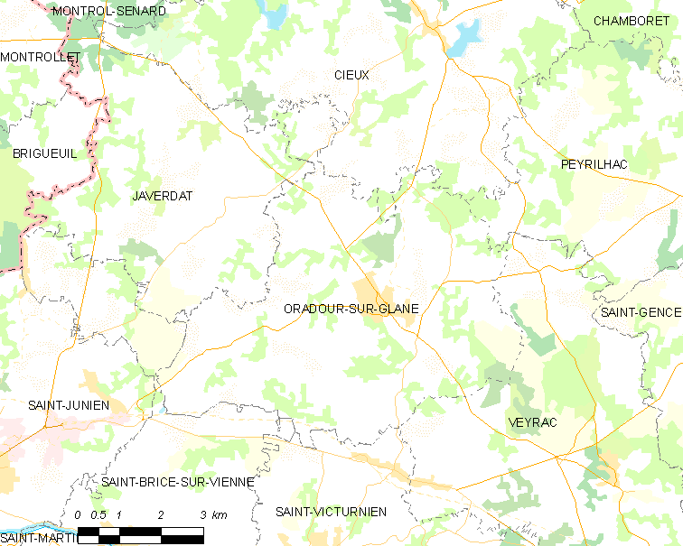 Map of French municipality Oradour-sur-Glane